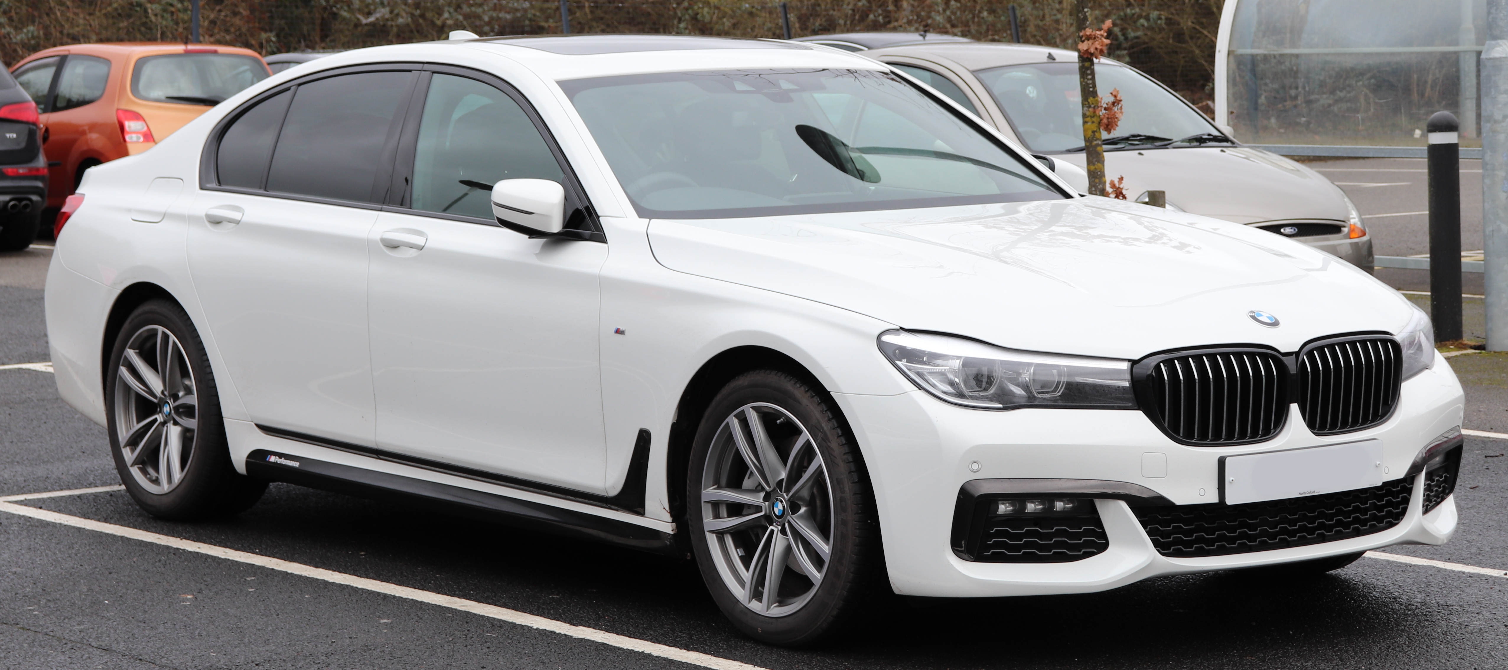 2017 BMW 740d XDRIVE M Sport Automatic 3.0 Front Taken in Warwick